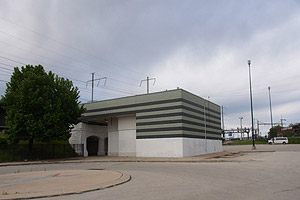 North Philadelphia station in May 2014